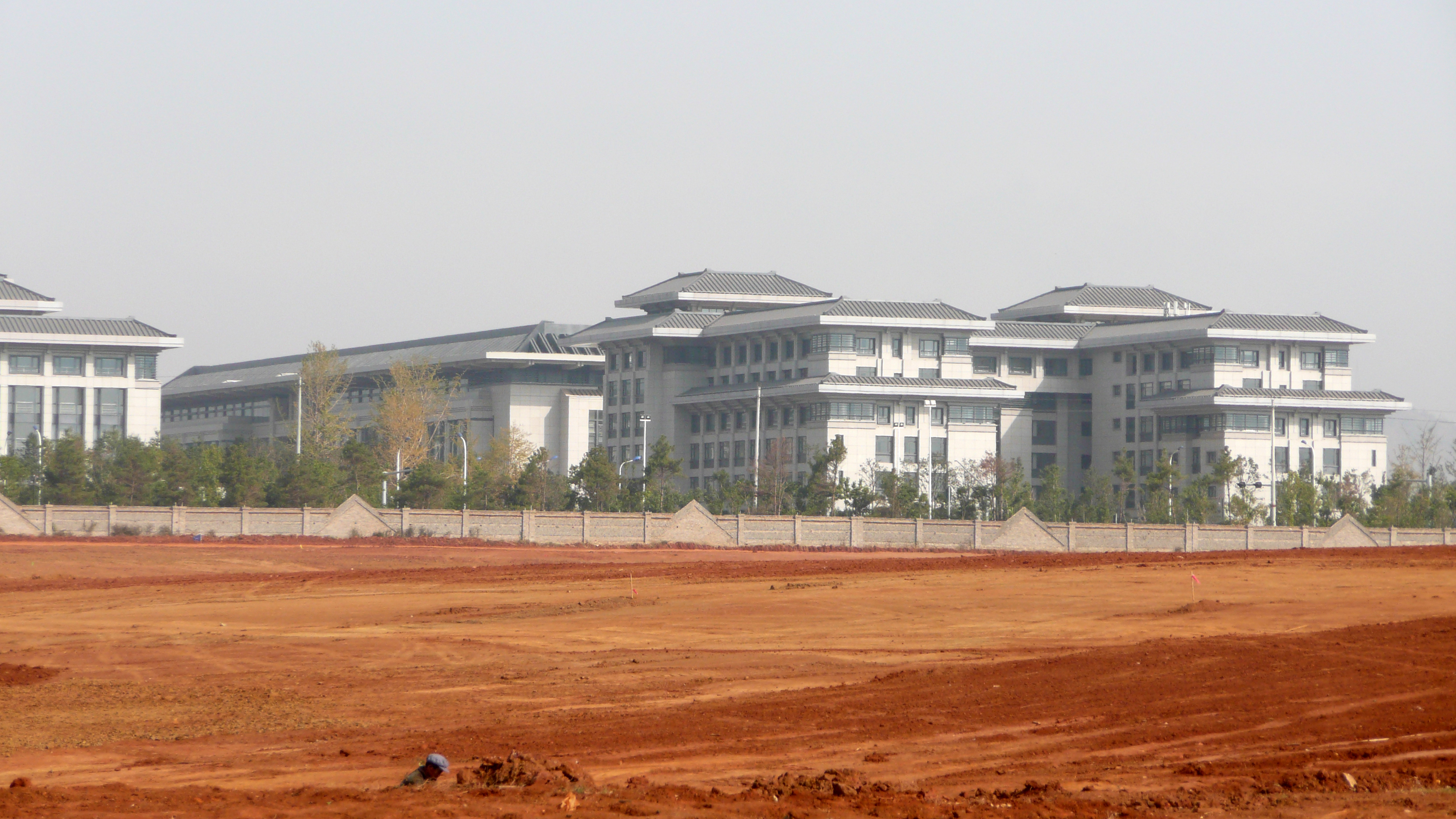 Kunming - Capital of the Chinese province Yunnan - New area of city administration in the new East city (May 2010)